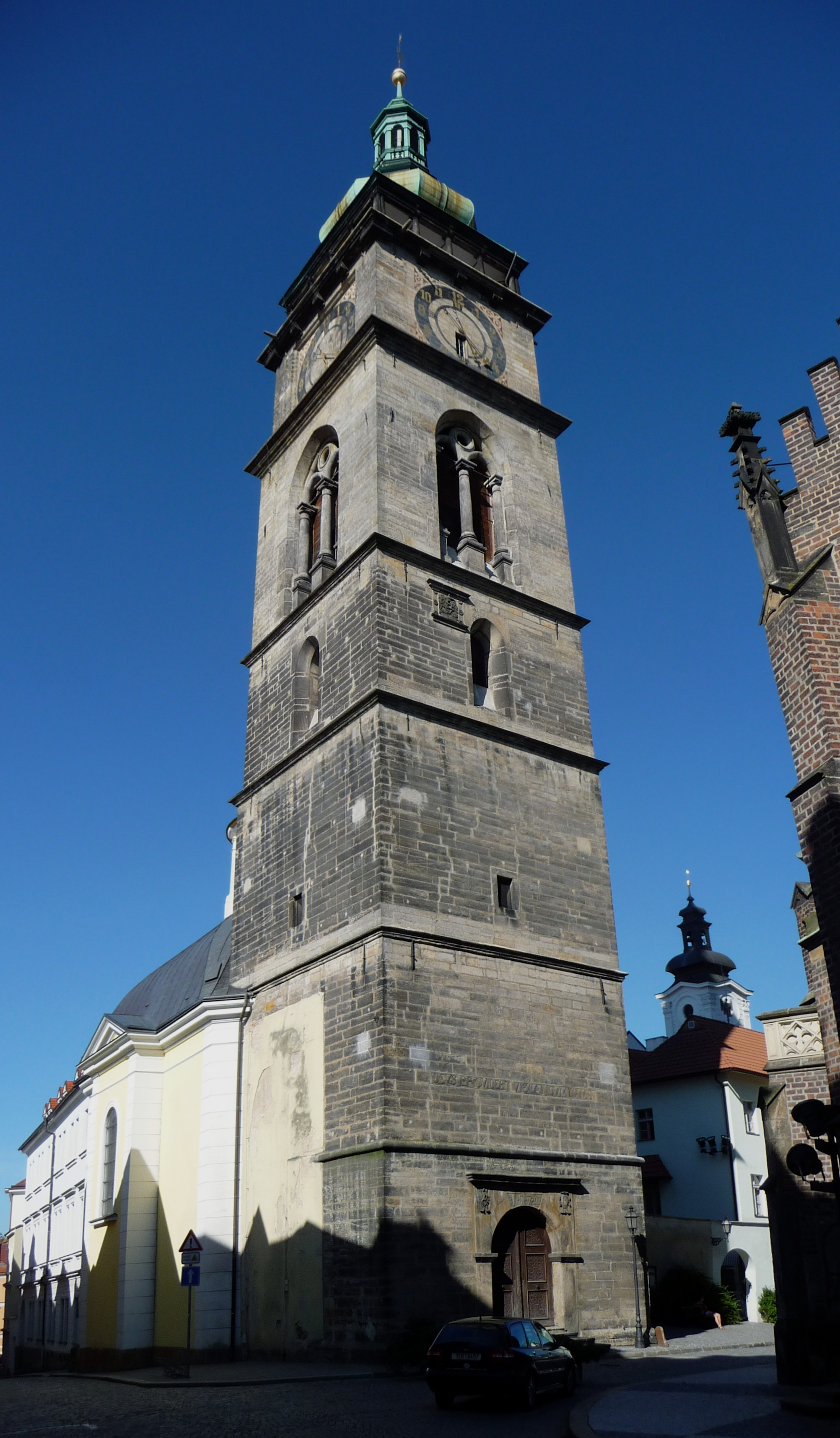 The Bílá věž tower in Hradec Králové (Hradec Králové Region, Czech Republic).